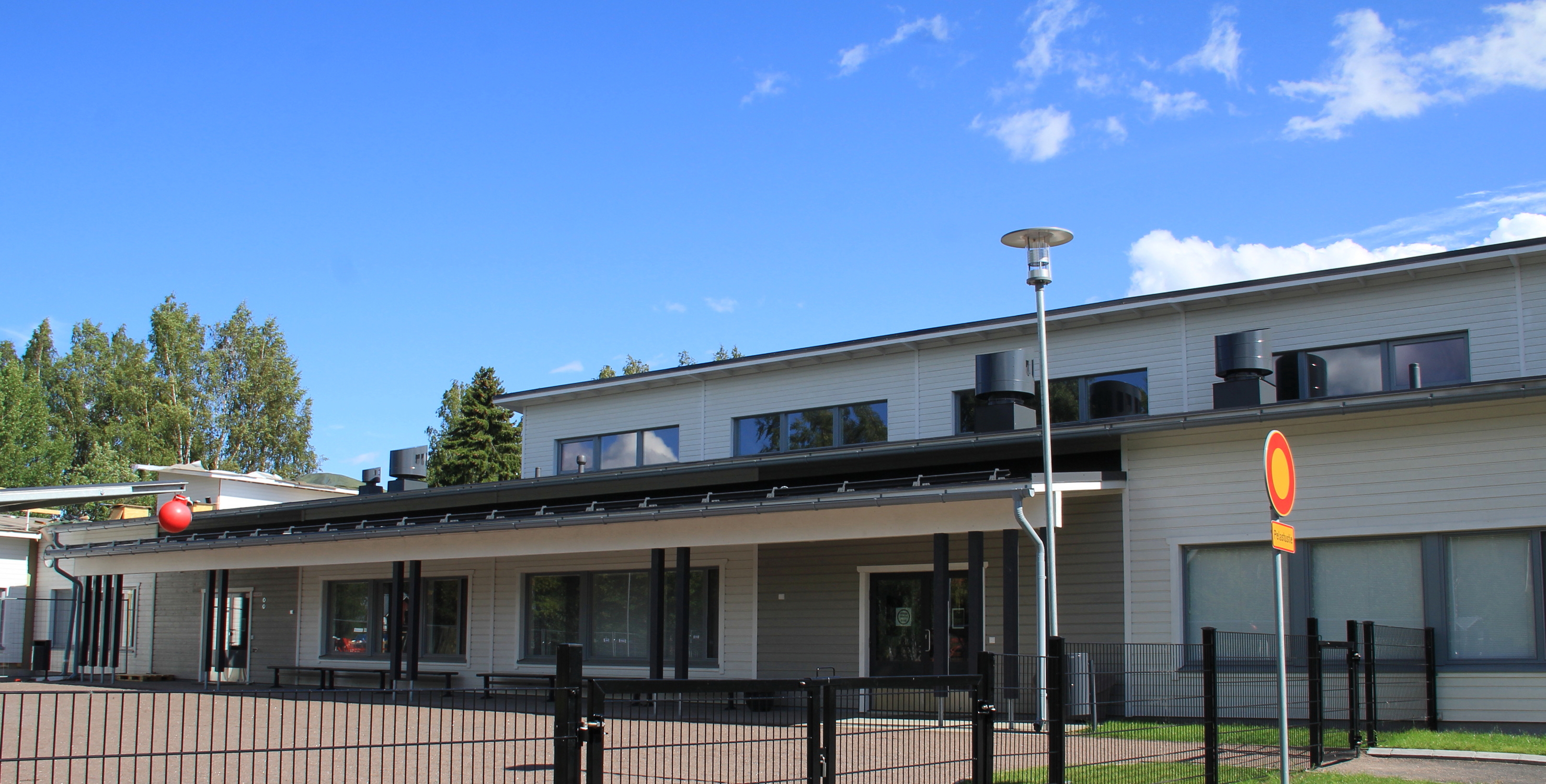 Monninkylä primary school, Monninkylä, Askola, Finland.